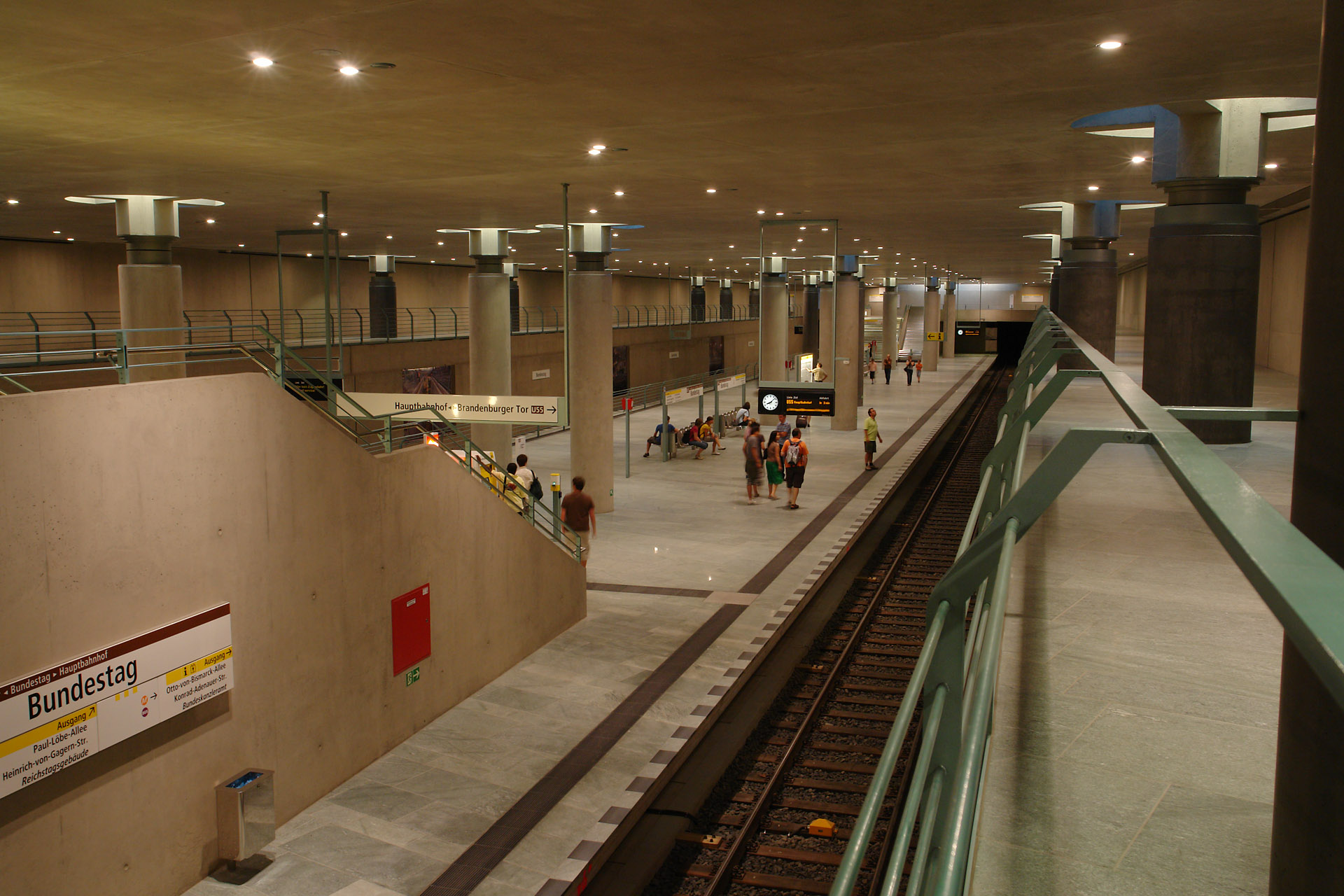 Berlin, Subway stop Bundestag.